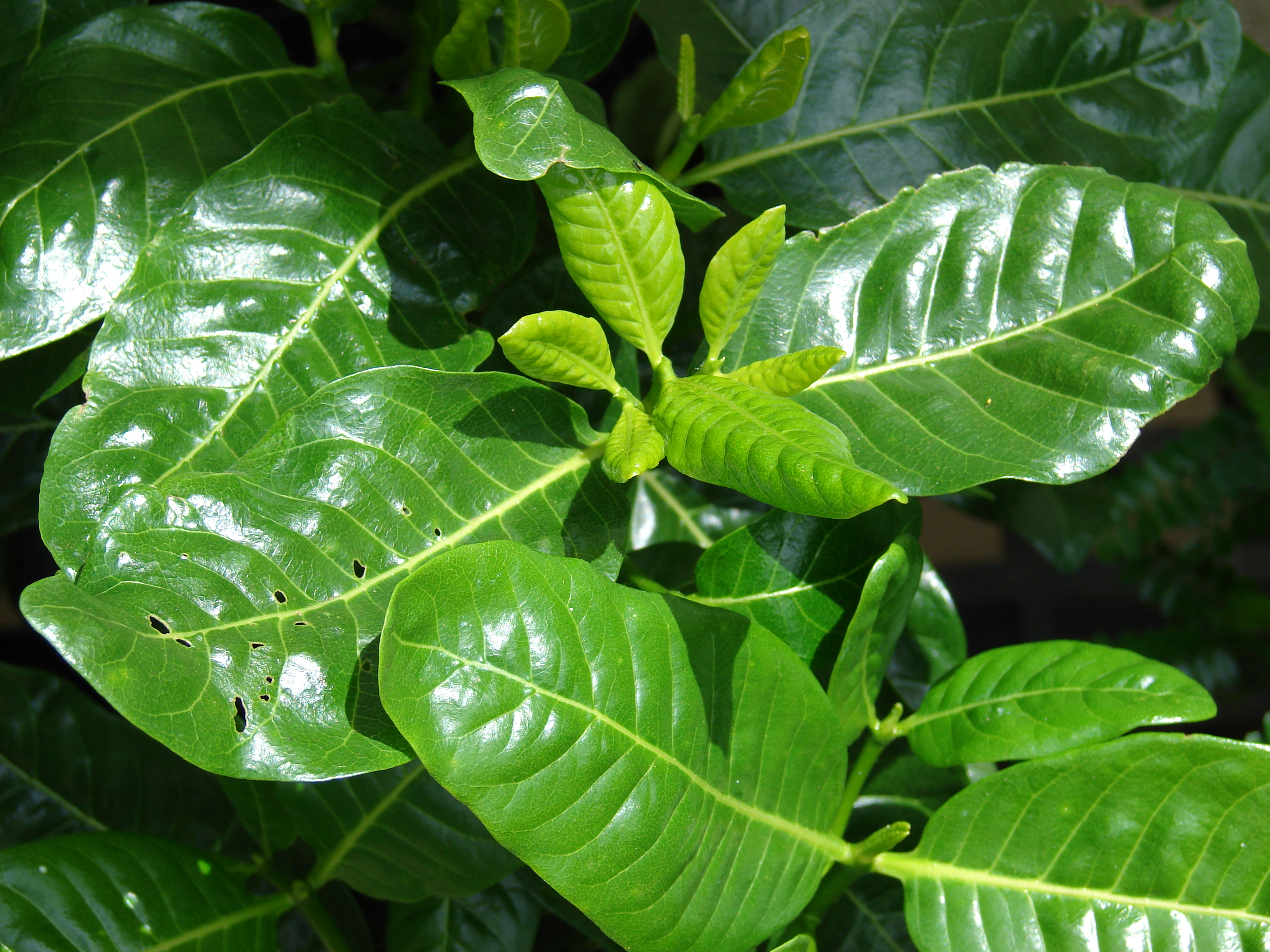 Gardenia brighamii (leaves). Location: Maui, Kula Ace Hardware and Nursery